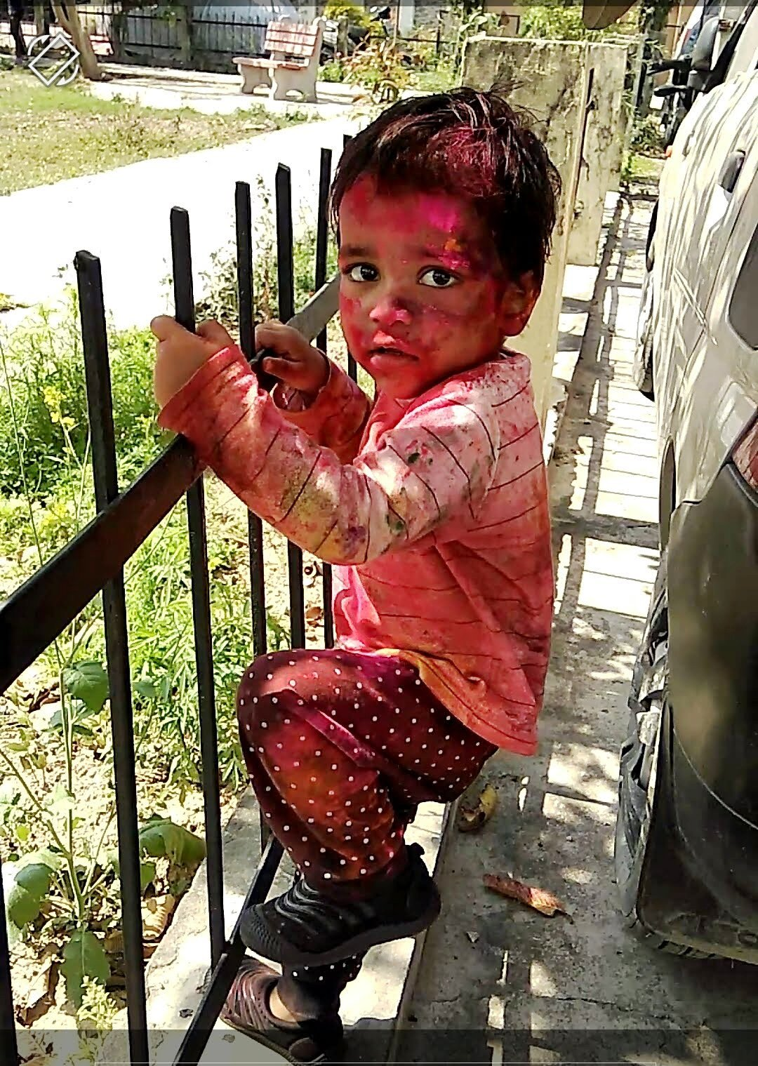 Holi is a festival of colors, celebrated by all age persons like children, youngers and old age persons.